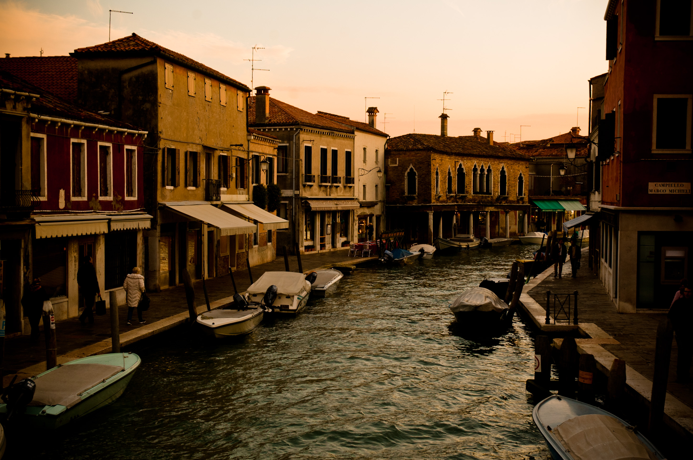 Sunset on Murano